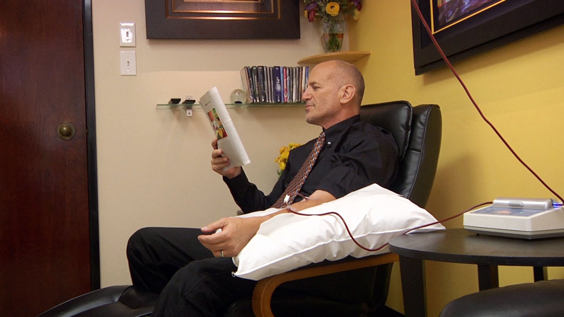 Patient undergoing Ozone IV Therapy at AMA Skincare and Wellness